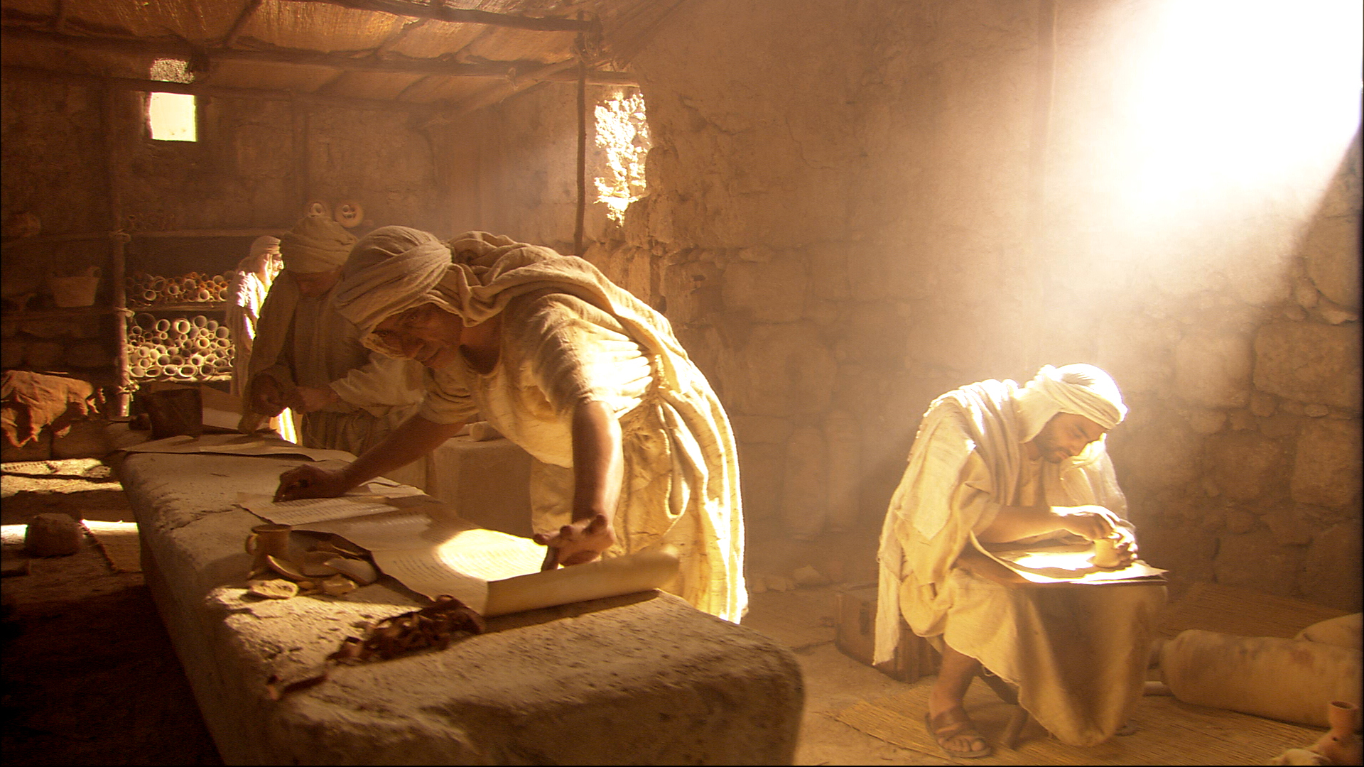 From the feature film A Human Sanctuary (cf. [1])